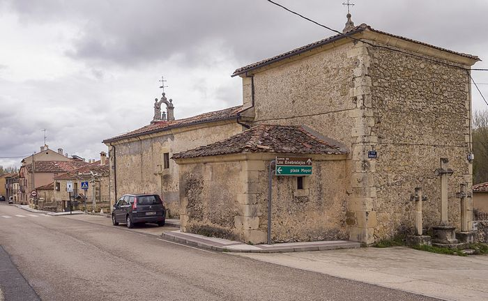 Ermita de San Roque